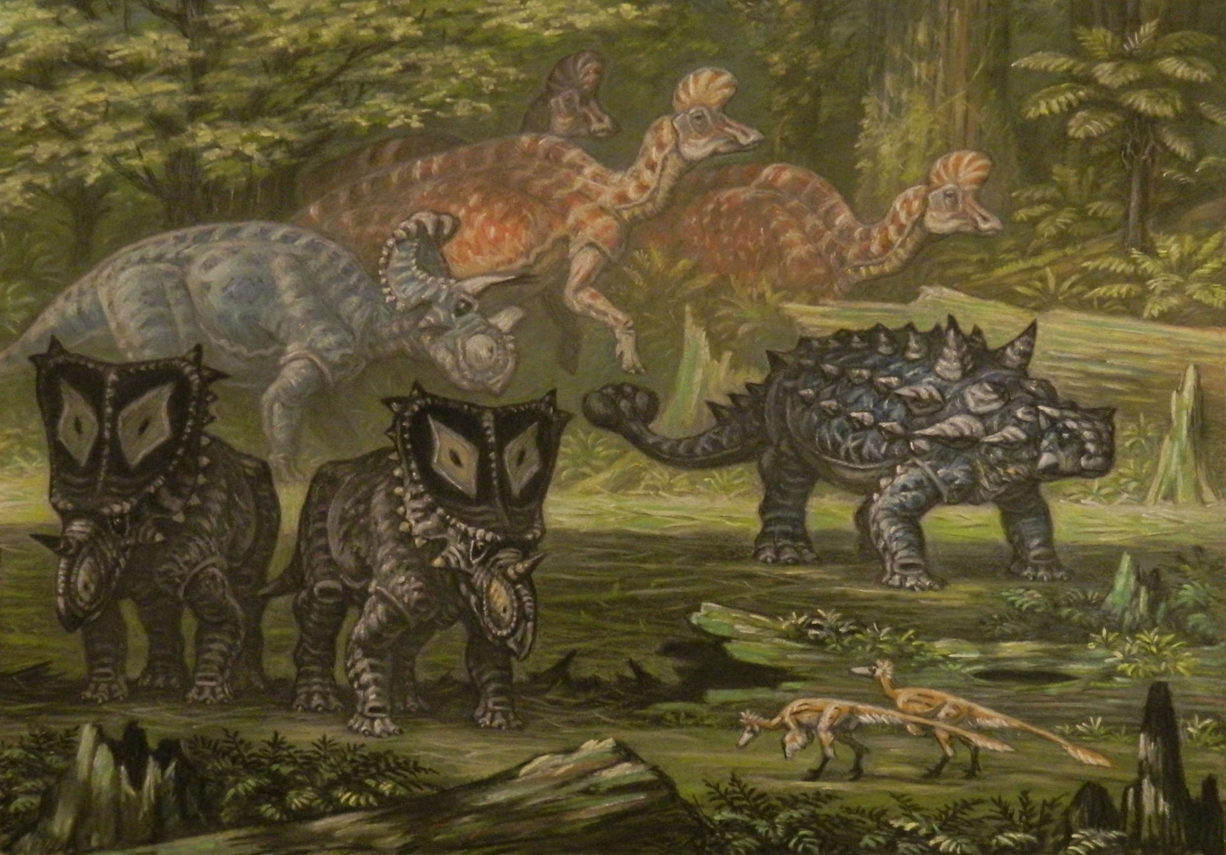 Campanian fauna from the Oldman Formation: Wendiceratops, Corythosaurus, Scolosaurus, Chasmosaurus and "Troodon"